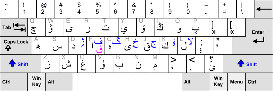 Uyghur Arabic keyboard layout from MS Windows 7. "Qaf with dot above" (purple) is from the earlier version of the layout (Uyghur Legacy layout).